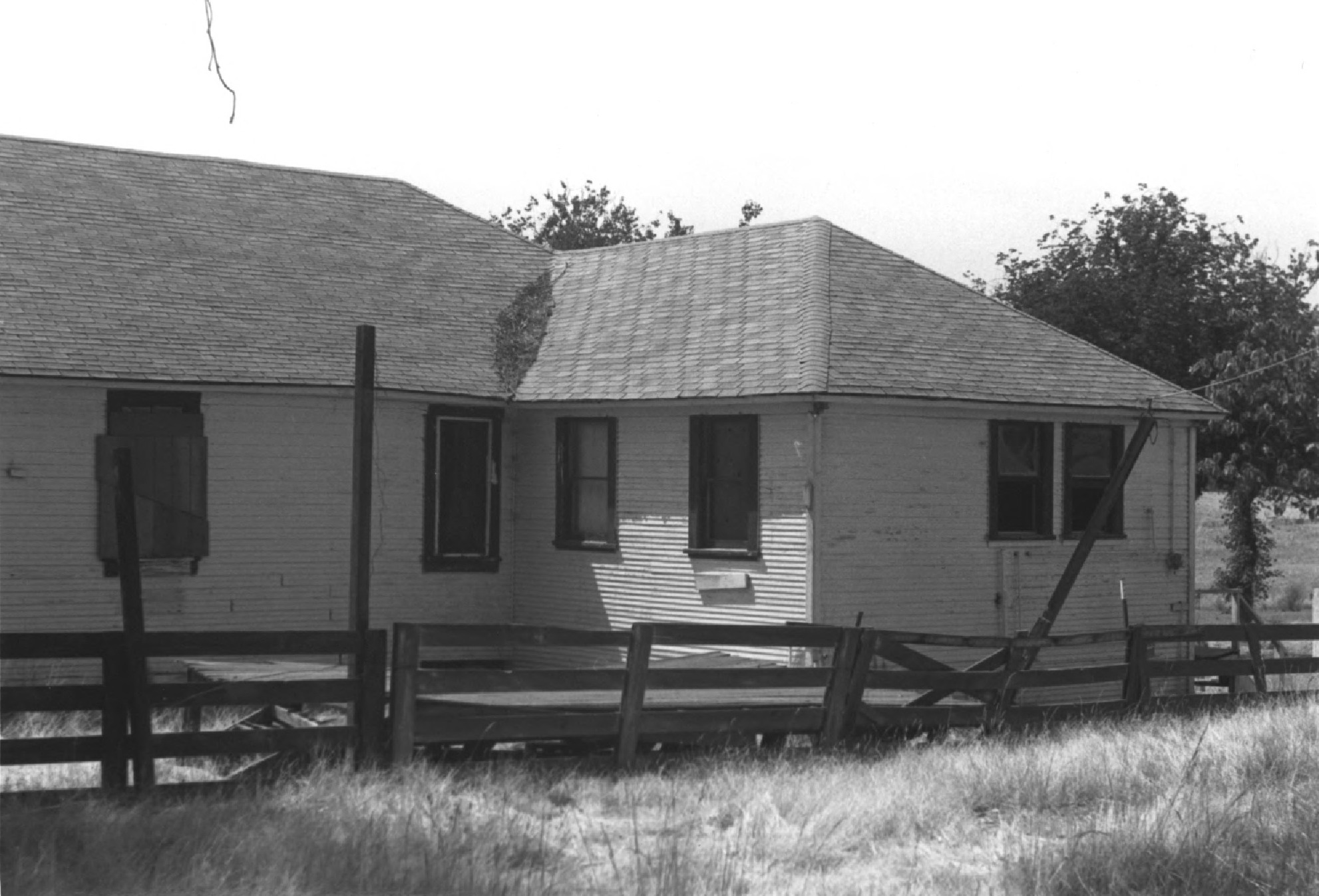 The historic Alta Mesa Farm Bureau Hall (built 1913), formerly located at 10195 Alta Mesa Road near Wilton, California, United States, is listed on the US National Register of Historic Places. The hall was destroyed by fire in 1987. Original caption at source document: Camera looking northwest showing kitchen wing.